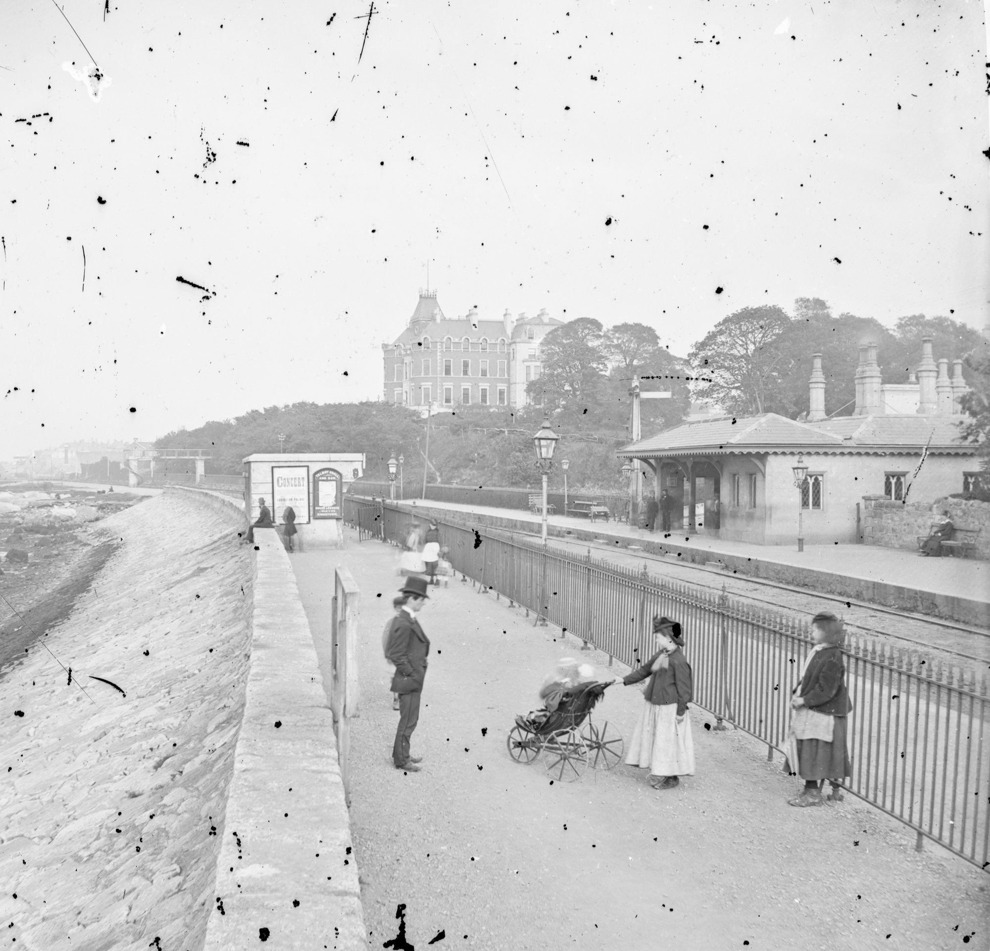 Salthill Railway station, people, including girl with pram, Monkstown, Co. Dublin. I am a great admirer of the Stereo Pairs Collection, I think that many photographers today would be very happy to take photographs half as good as some of the specimens we have the pleasure to see on this stream. Today we visit the leafy suburbs of South County Dublin, Salthill Railway Station to be precise, we see the Salthill Hotel in the background and a very modern looking bridge with spiral steps, which I presume is for the use of Hotel patrons. [/photos/91549360@N03/ OwenMacC] links to a nice photo of the spiral staircase - see below. [/photos/johnspooner/ John Spooner] in his inimitable style tells a story of violence and a blood covered gouge, which had been used to inflict near fatal injuries. I have sounded the appropriate Klaxon!!. Do also see his comment on a very destructive storm on 5th January 1877. Thanks to "The Cookie Munster" [/photos/swordscookie/ swordscookie] for details on the Station itself. I am very surprised that no one mentioned the signs in the middle of the photo!!!! Photographers: Frederick Holland Mares, James Simonton Contributor: John Fortune Lawrence Collection: The Stereo Pairs Photograph Collection Date: between ca. 1860-1883 NLI Ref: STP_1964 You can also view this image, and many thousands of others, on the NLI’s catalogue at